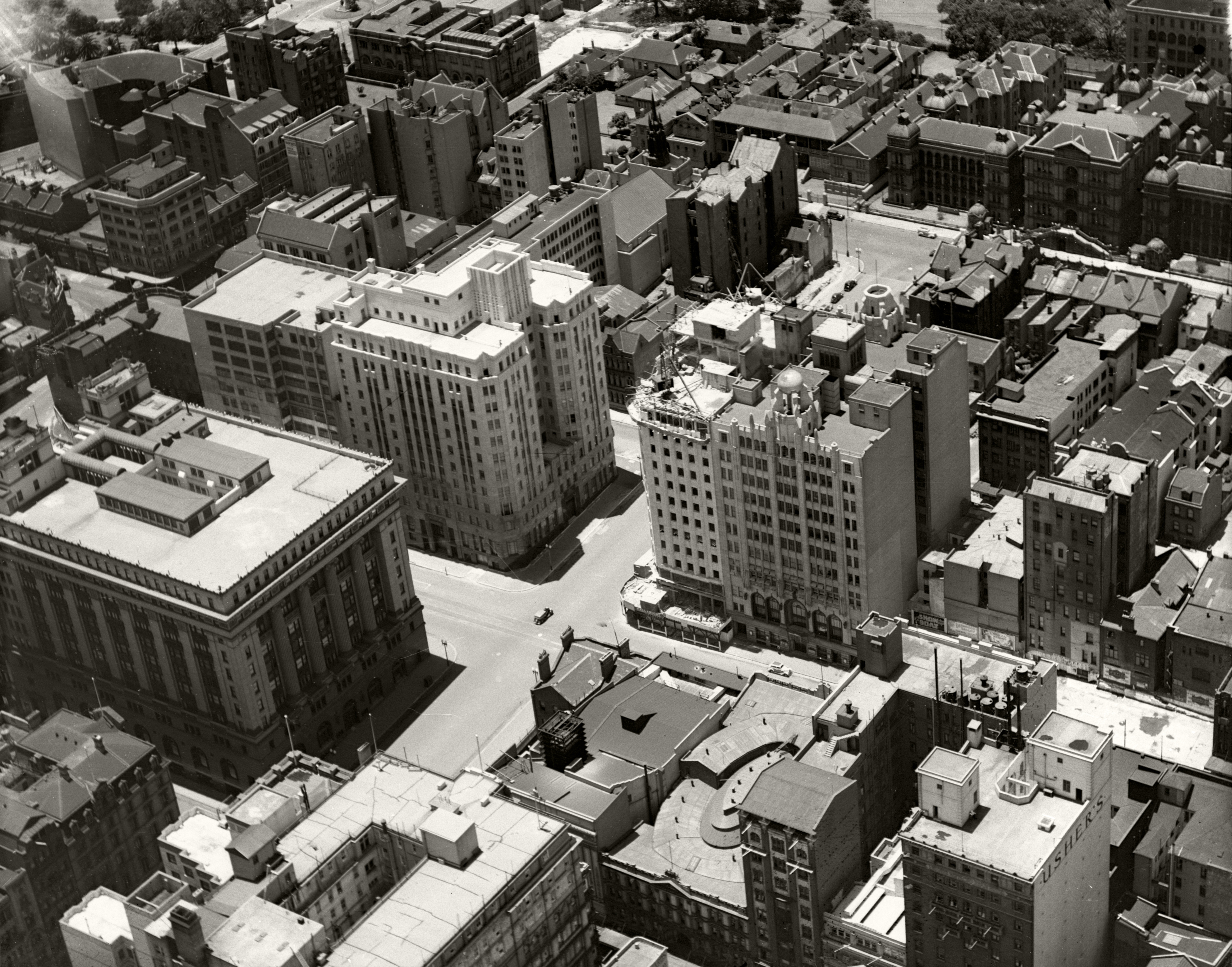 Adastra Aerial Survey Collection. Martin Place (east end), shortly after the completion of the extension to Macquarie Street. Buildings depicted include the State Savings Bank building (left foreground), Rural Bank Building (now the Colonial Building, left), Australian Provincial Assurance building and the Sun Building (right), Sydney Hospital and Parliament House of NSW (background)